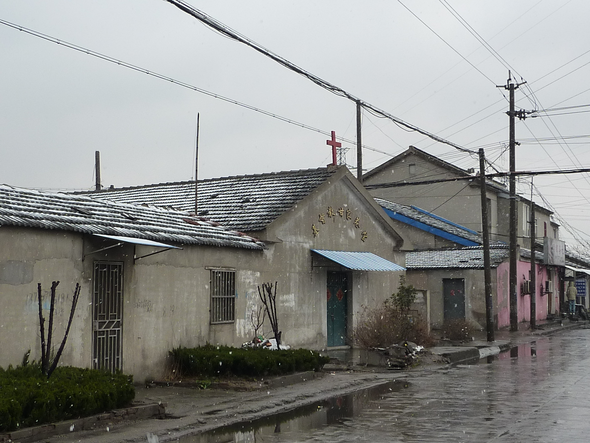 On the streets of Ganjiaxiang, an industrial neighborhood in Qixia District, Nanjing A small protestant church.